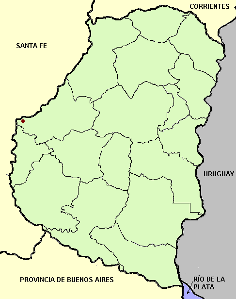 It shows administrative boundaries of Entre Ríos province in Argentina, its departments and its capital (Paraná).